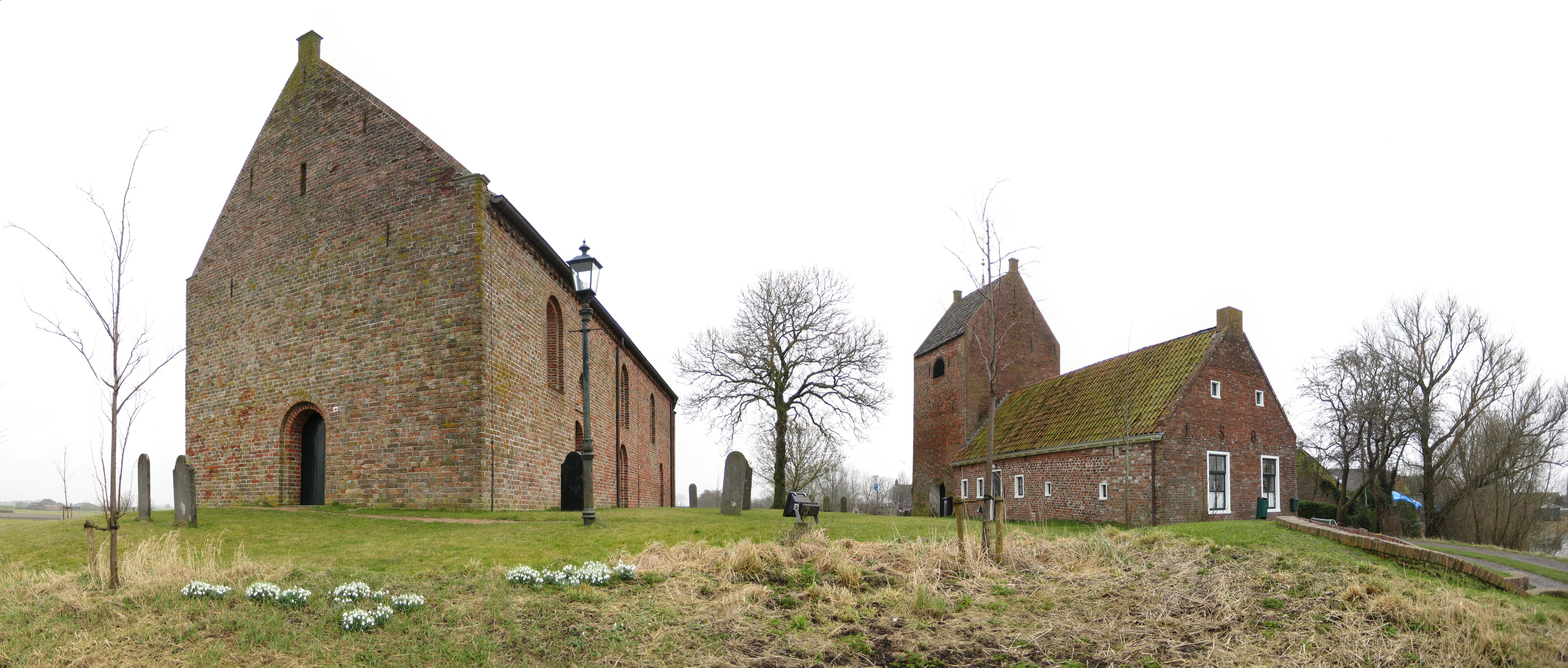 The thirteenth century church and church tower of Ezinge, a village in the Dutch province of Groningen.